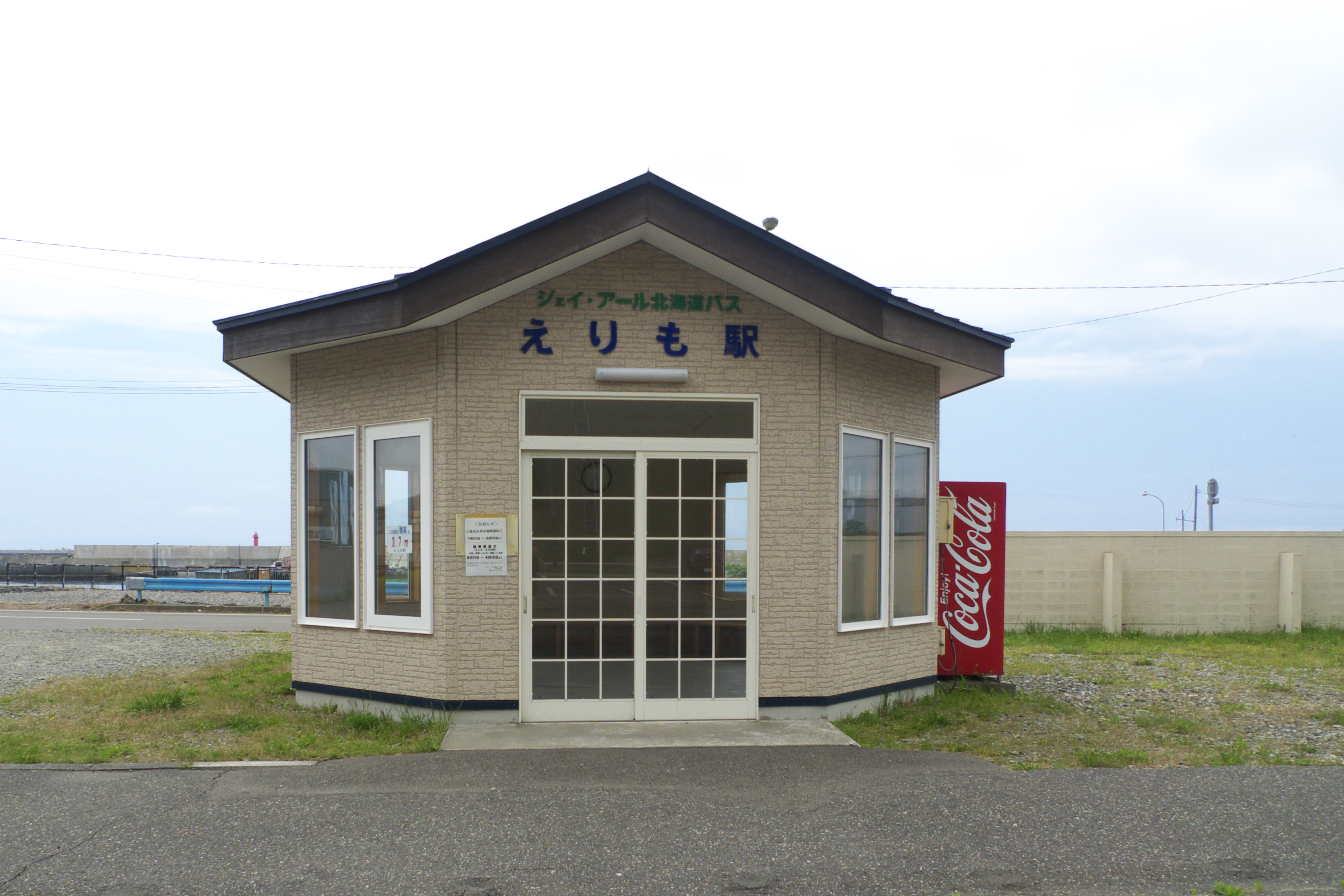 JR Hokkaido Bus Erimo Station in Erimo Town, Hokkaido, Japan